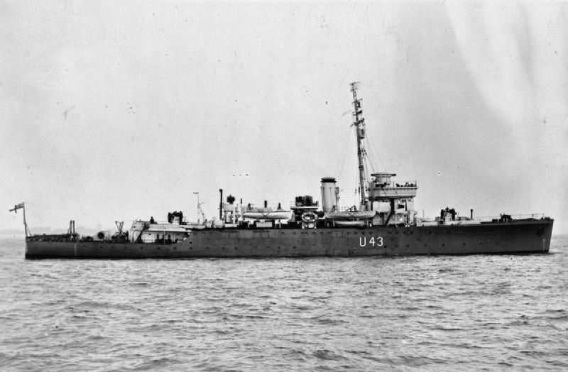 Photograph of British sloop HMS Bideford.